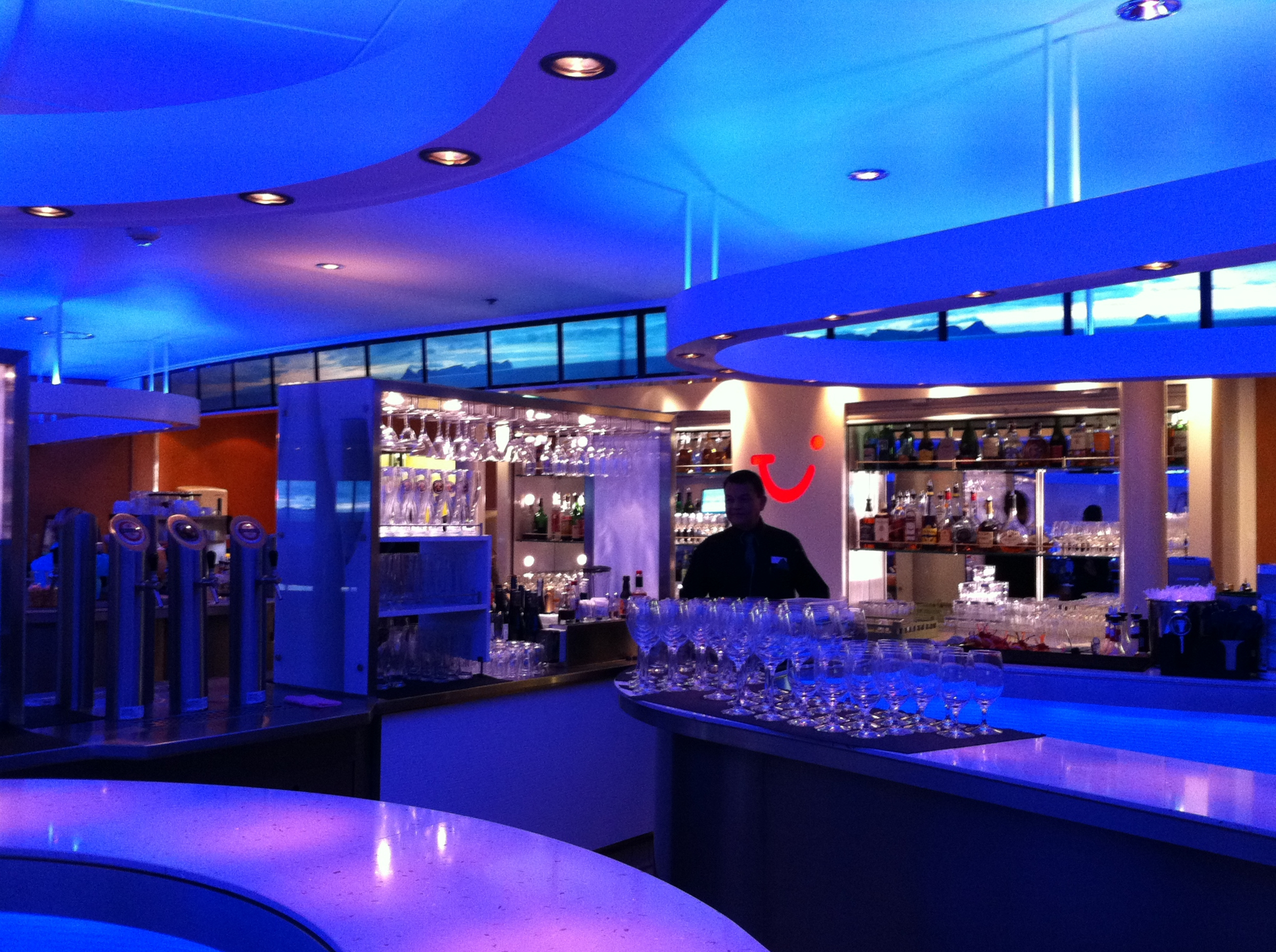 Cruise ship TUI Cruises "Mein Schiff 1", TUI-Bar